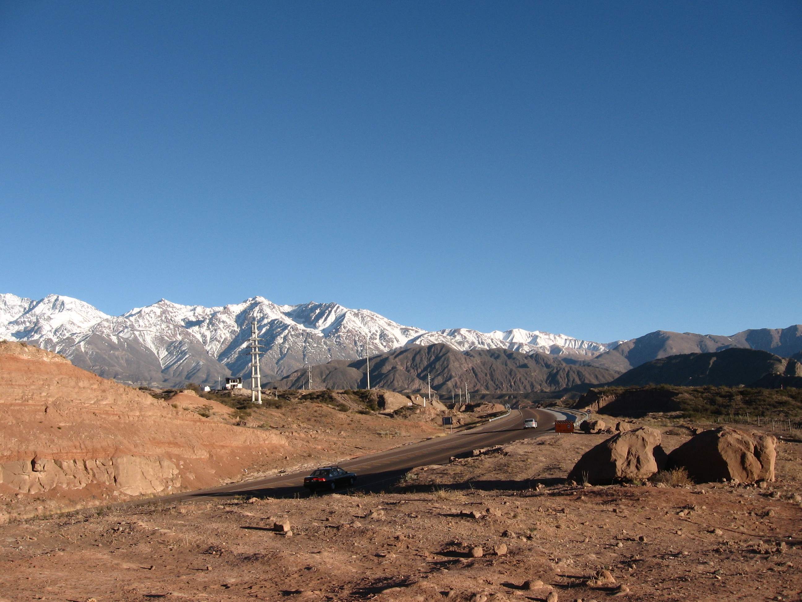 Andes mountain range